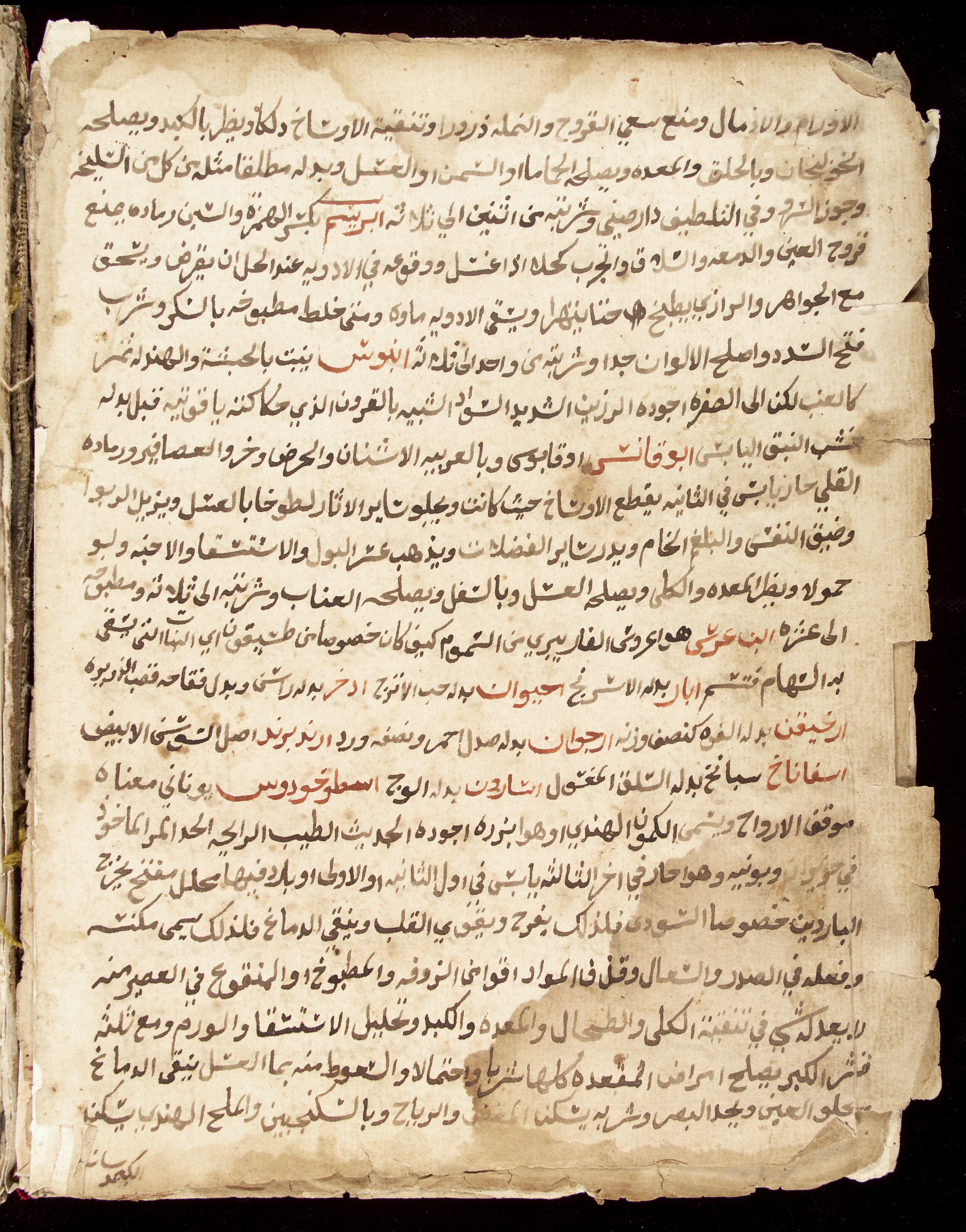 Page from an Arabic Text Asian Collection Keywords: Arabic